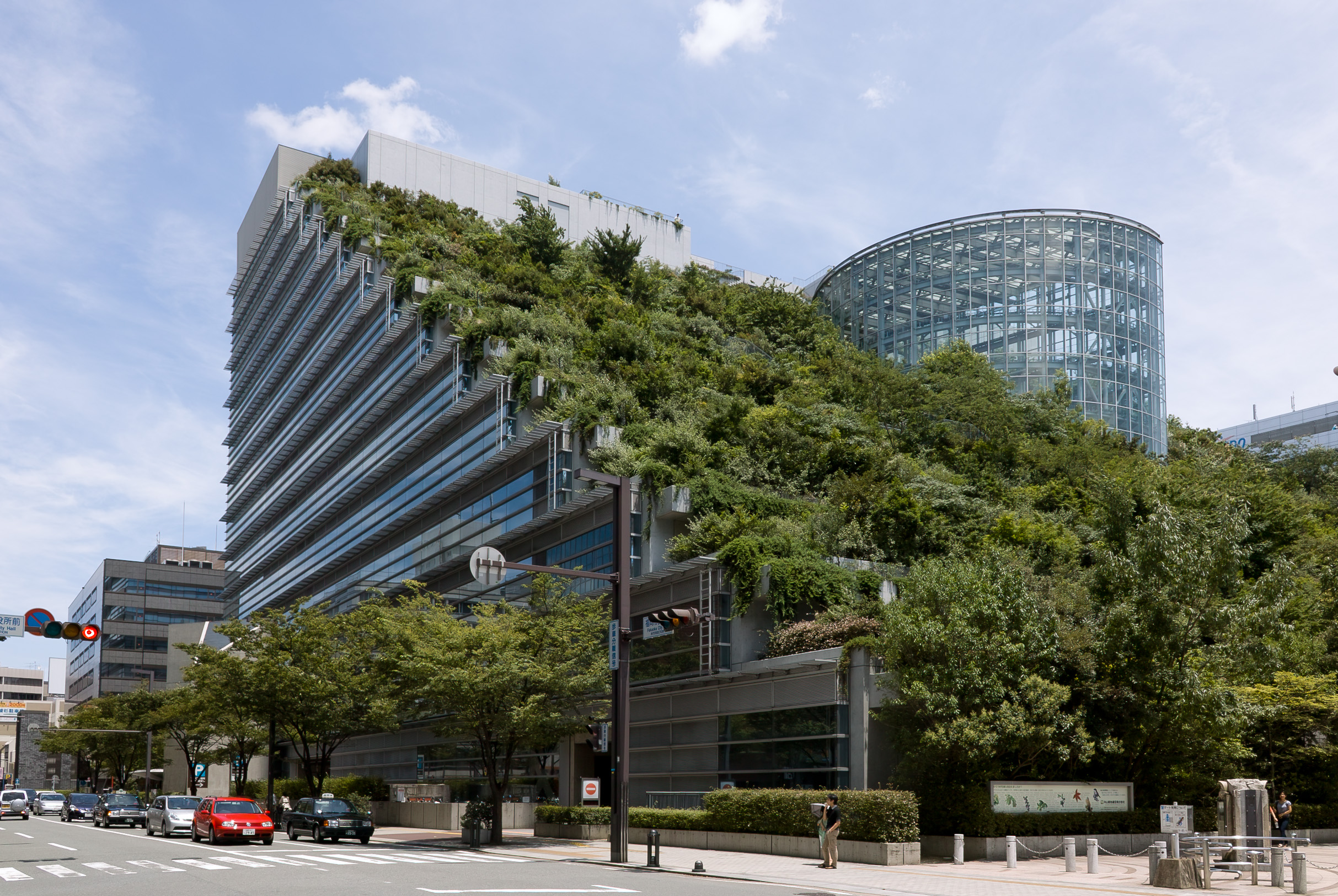 Acros building with roof garden, Fukuoka, Japan. Designed by Emilio Ambasz